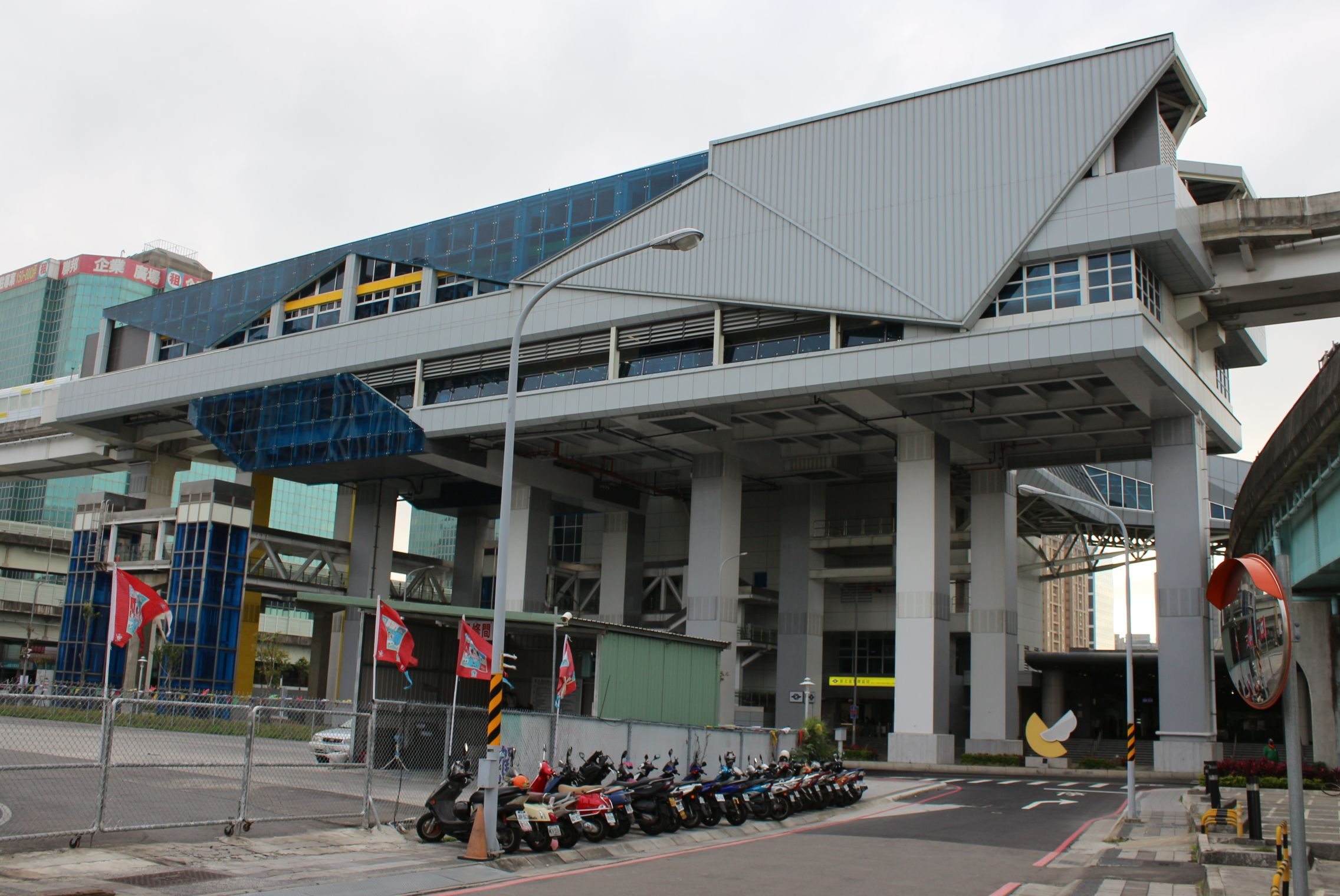 New Taipei Industrial Park Station, Taipei Metro